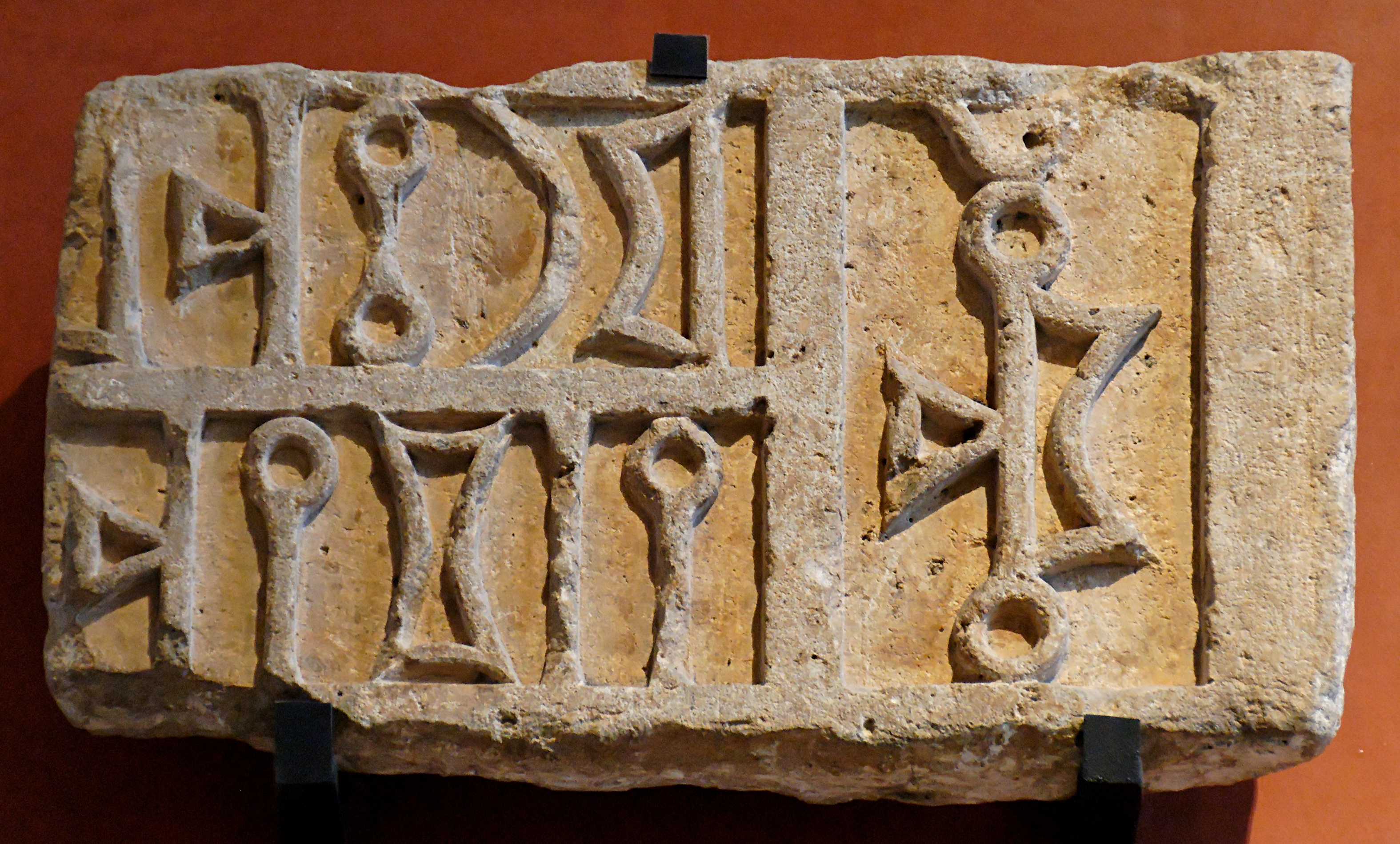 Fragmentary frieze bearing an inscription in South Arabian script with the name “Marthadum”. Limestone, 2nd–1st centuries BC, Southern Arabia.